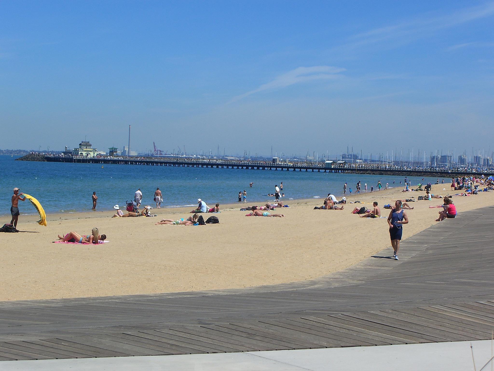 People-watching while we give our feet a rest.